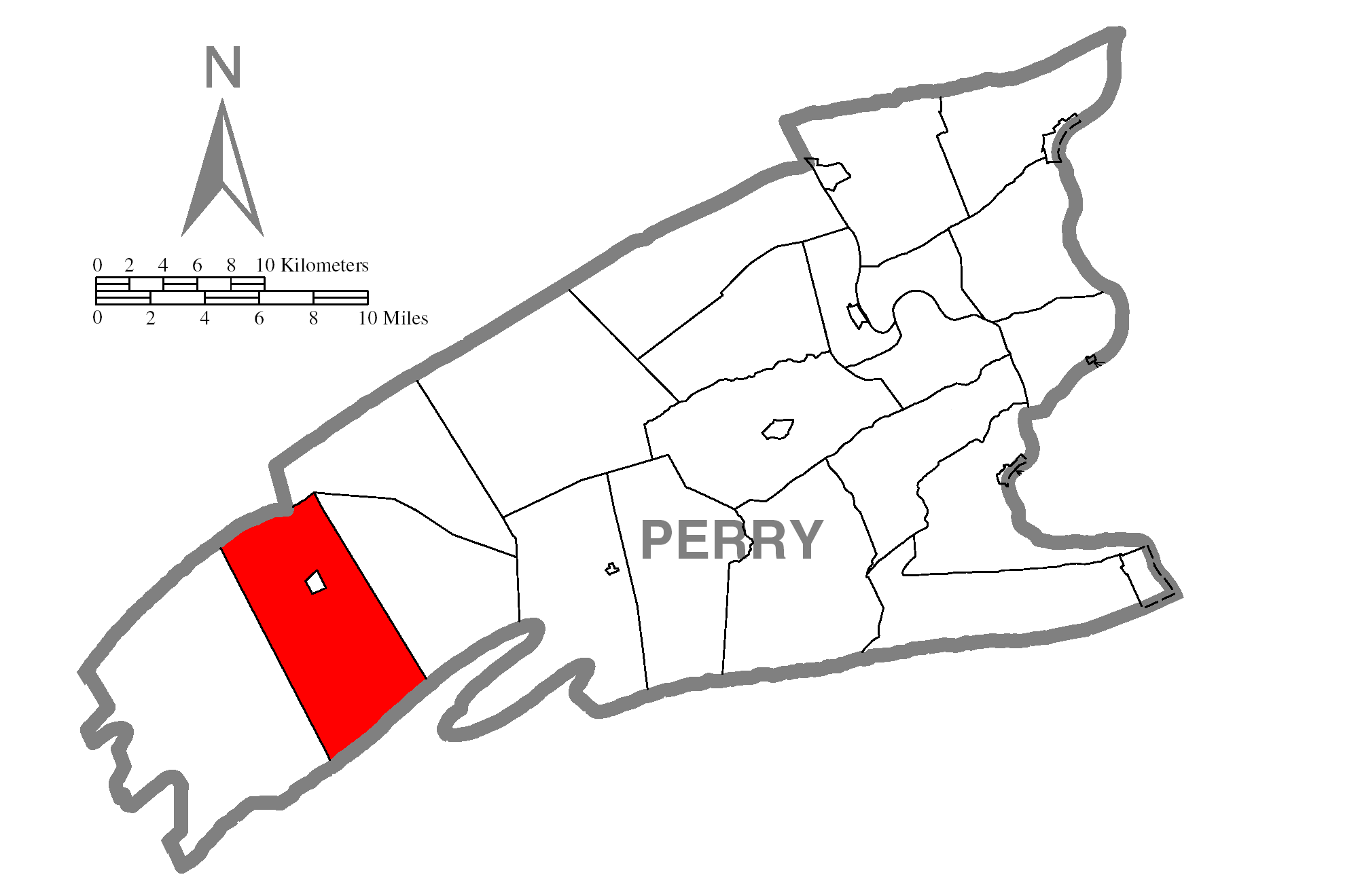 Map of Perry County, Pennsylvania, United States with township and municipal boundaries highlighting Jackson Township is taken from US Census website[1] and modified by Ram-Man in October 2006 and Dincher in March 2008. Our modifications licensed under the GNU Free Documentation License.